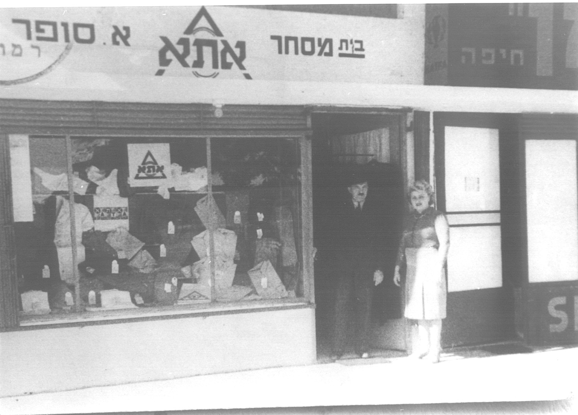 Looking outside the clothing store - Atta